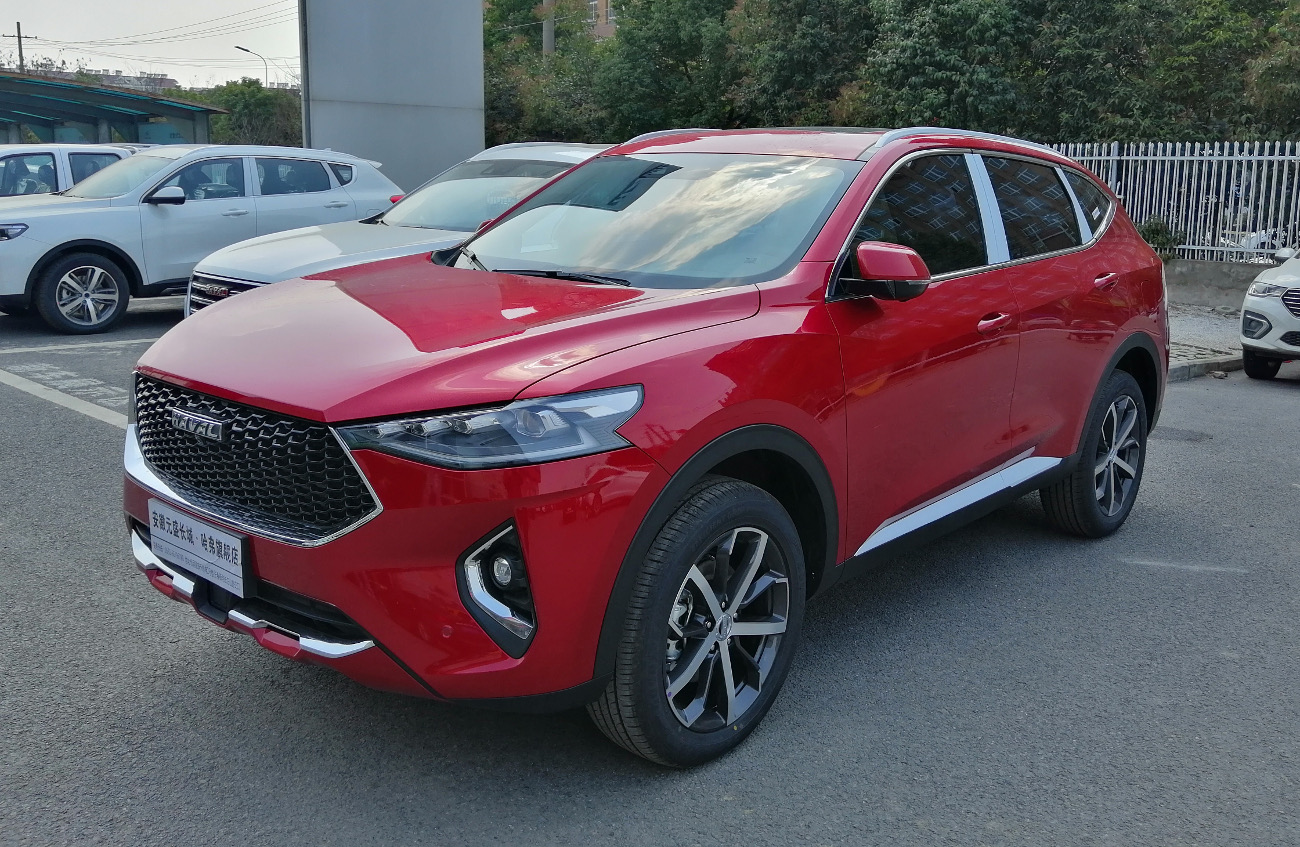 Haval F7 photographed in Hefei, Anhui province, China.